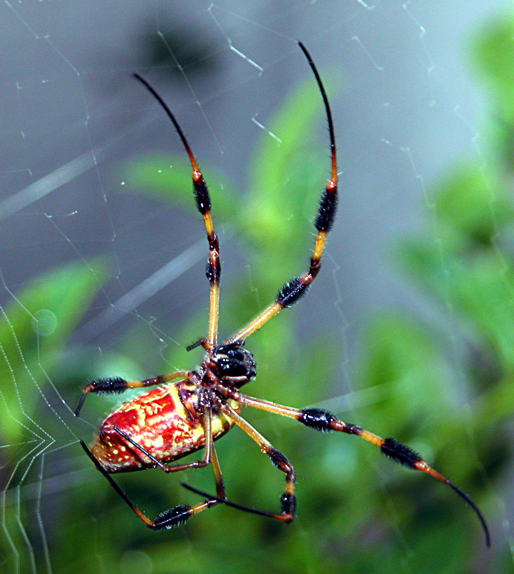 Author: C. Frank Starmer Photo: Oct 3, 2004 Charleston SC Camera: Nikon 5700 Subject: Nephila Clavipes (Banana spider or golden silk spider)